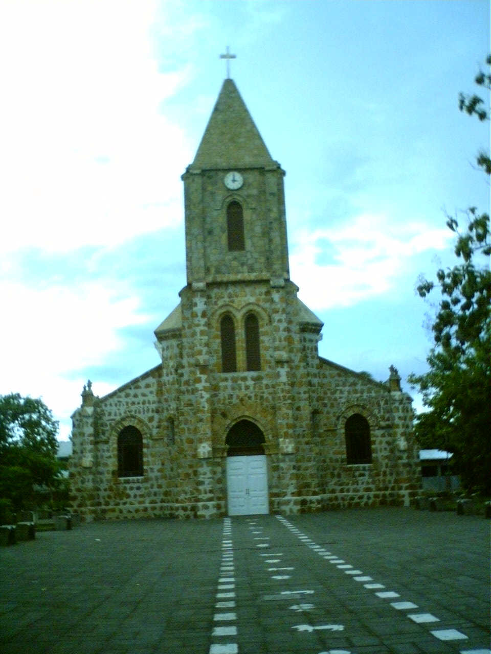 Cathedral of Puntarenas, the capital of the province Puntarenas, Costa Rica.